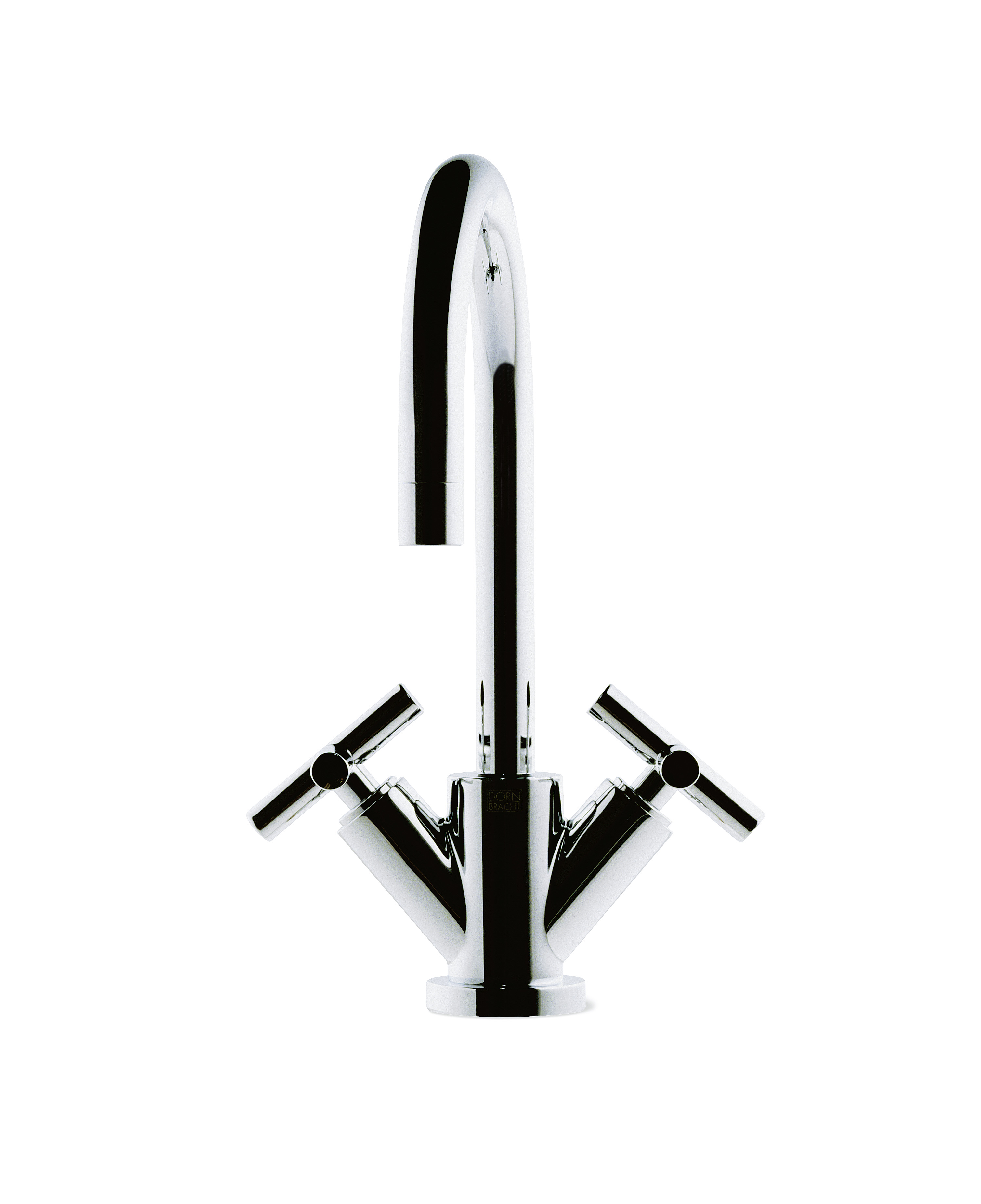 Armatur Tara (Dornbracht)